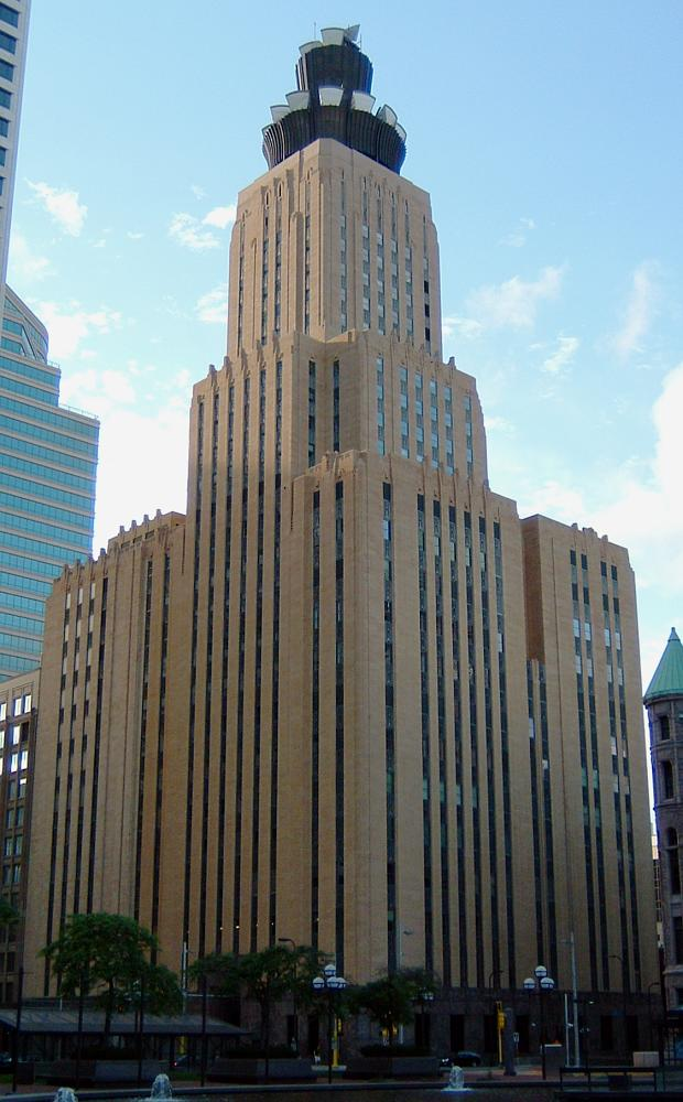 Qwest Building in Minneapolis, Minnesota. Image taken June 4, 2005 by User:Mulad. Hereby released into the public domain.